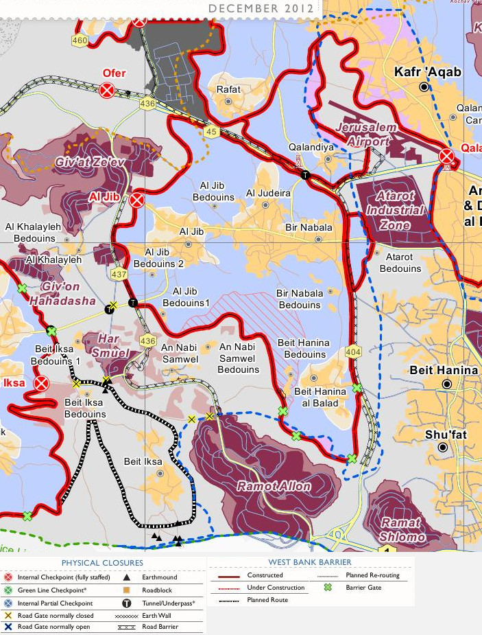 The Israeli barrier in northern Jerusalem, turning Palestinian areas beyond the "Green Line" into enclaves and separating them from the rest of the West Bank as well as from the City of Jerusalem.